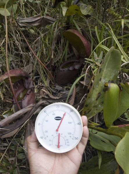 Nepenthes rajah